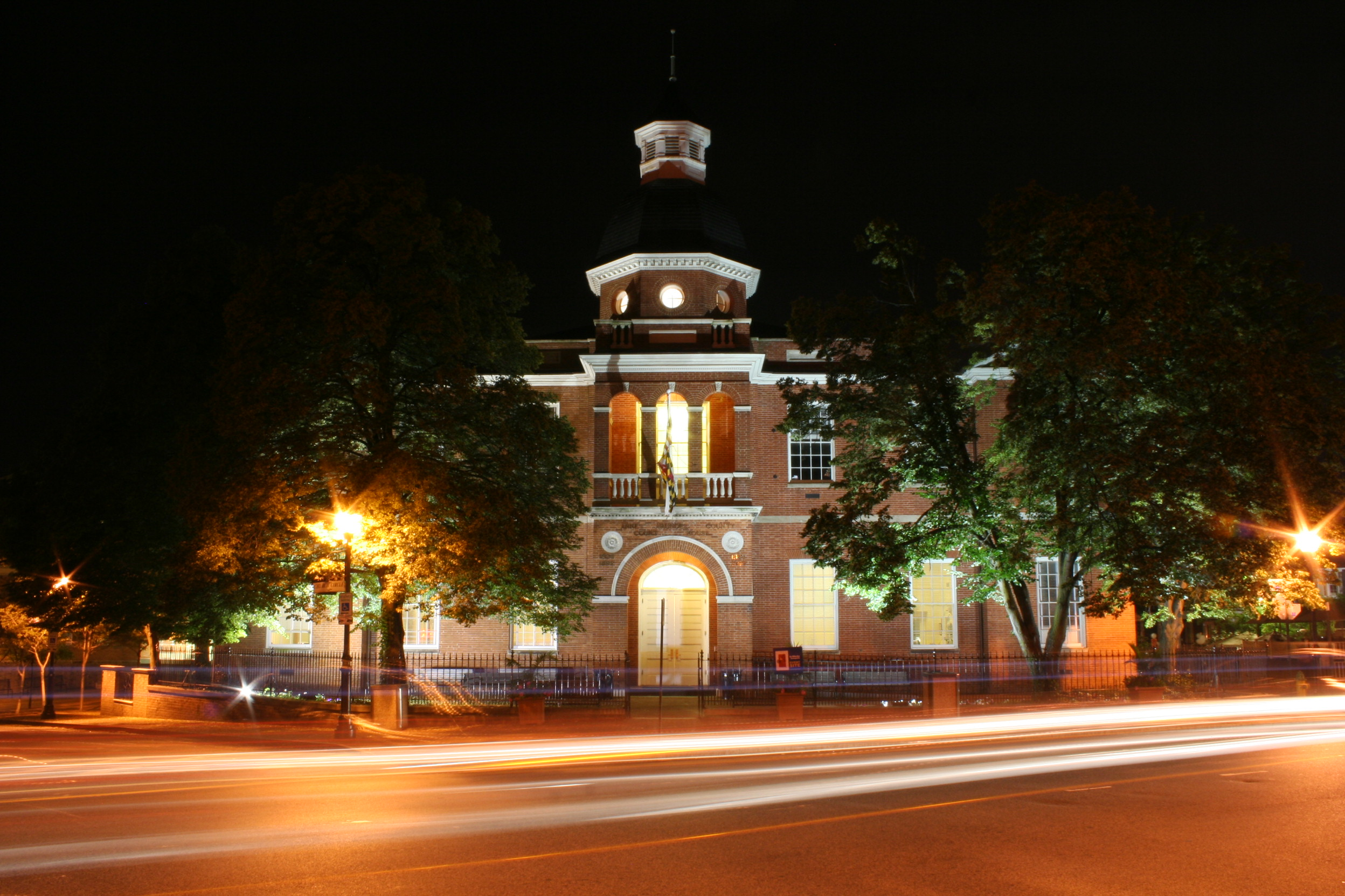 The Anne Arundel County Courthouse in Annapolis. Long exposure showing traffic passing in front of the courthouse on Church Circle, June 2005.